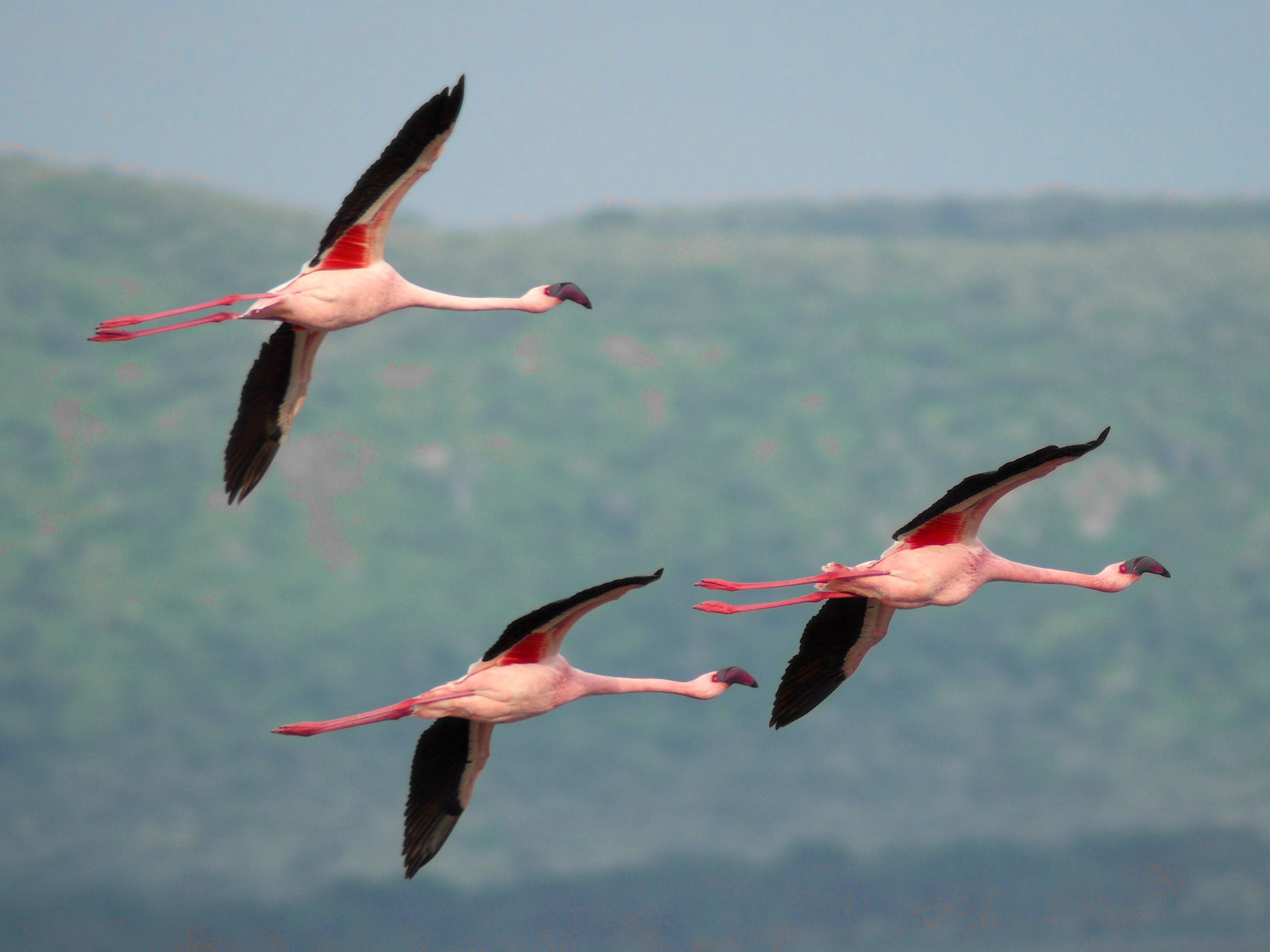 Lesser Flamingos, Phoeniconaias minor, flying over Lake Nakuru, Kenya. The time stamp is 10 hours too early.